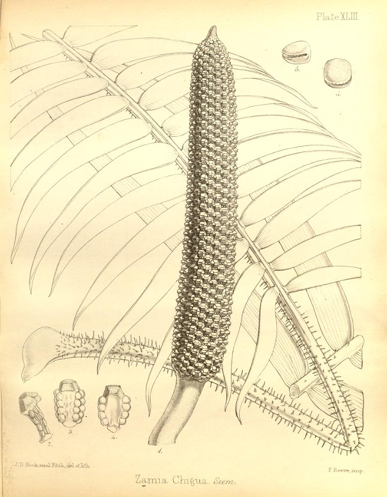 Illustration of Zamia chigua